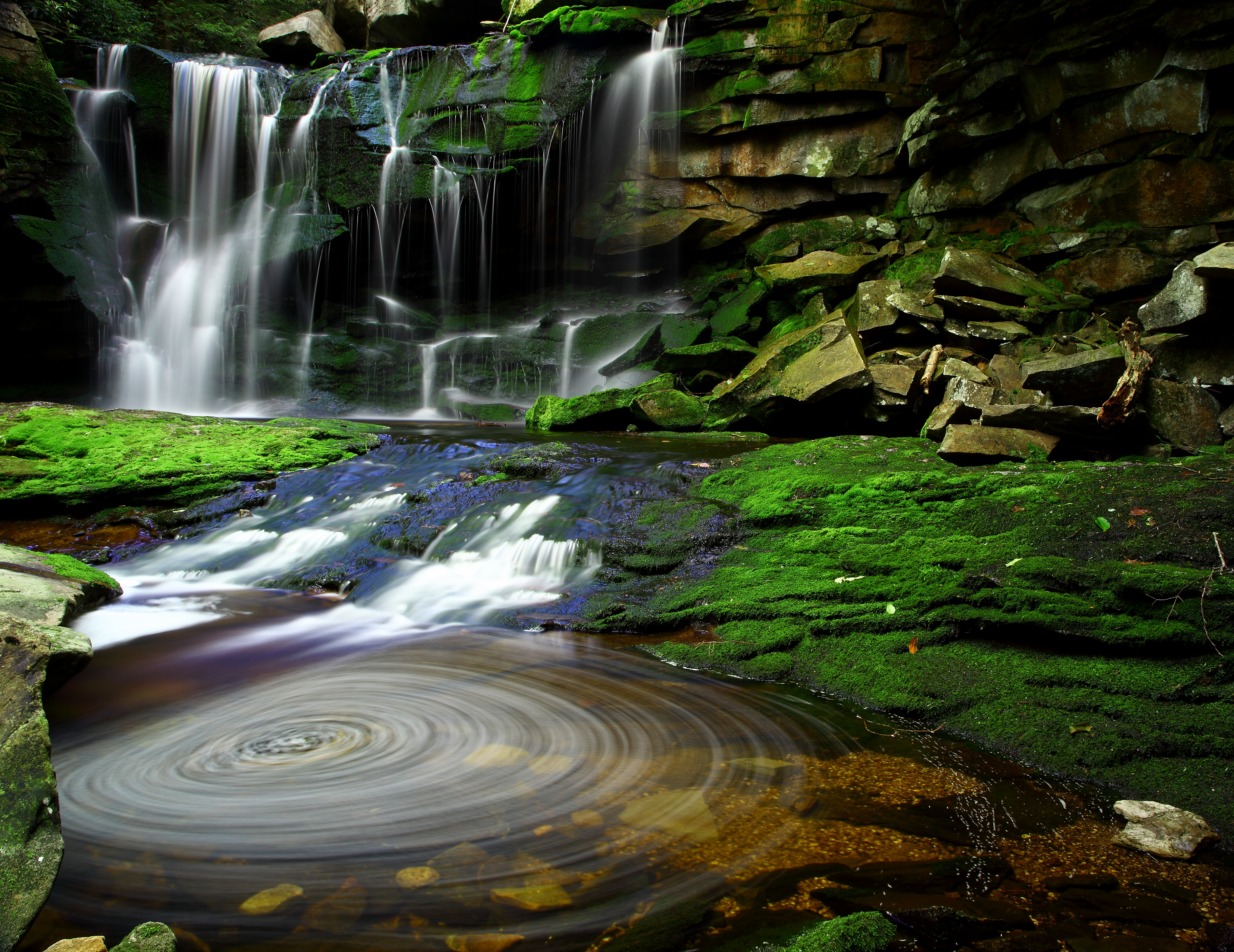 Beautiful Elakala Waterfalls in the Blackwater Falls State park, West Virginia, USA.